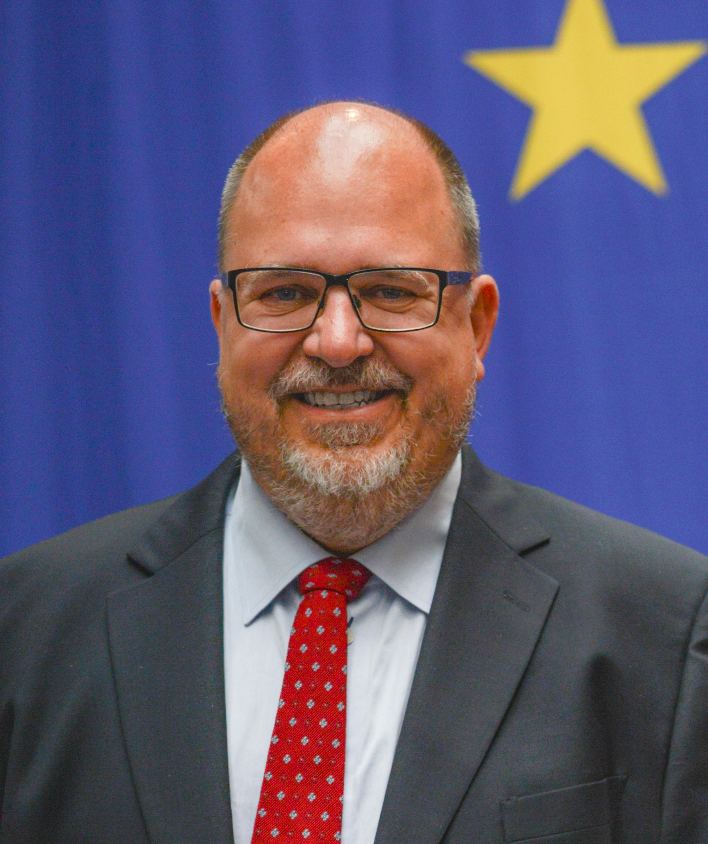 Karl-Petter Thorwaldsson in 2019